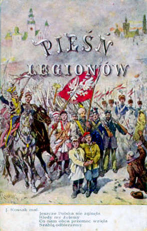 Post card from Juliusz Kossak's Pieśń Legionów ("Legions' Song") series, illustration of the first stanza